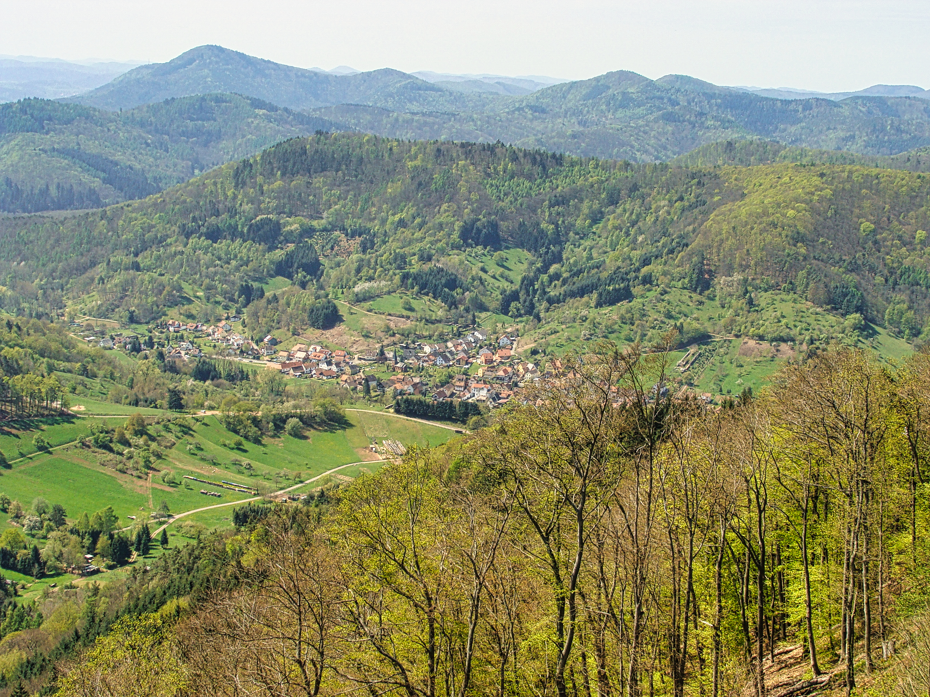 Dernbach - view from the Neuscharfenstein castle